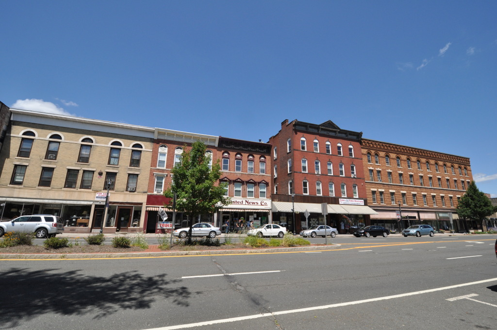 West End Historic District, Winsted, Connecticut. Eastern section of the district.